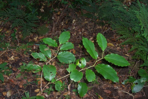 Pennantia cunninghamii, juvenile at Foxground, NSW, Australia